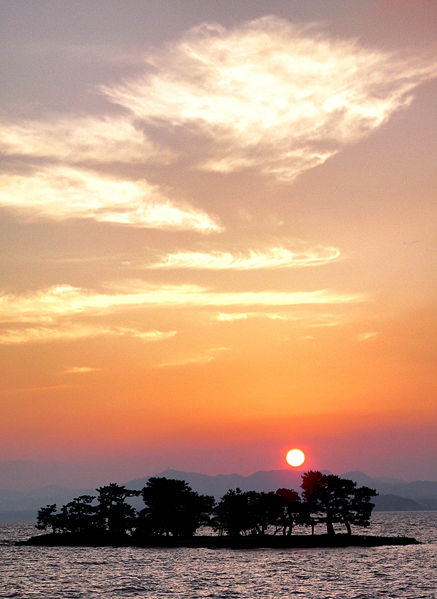 Matsue Lake Shinji Sunset(Japan)